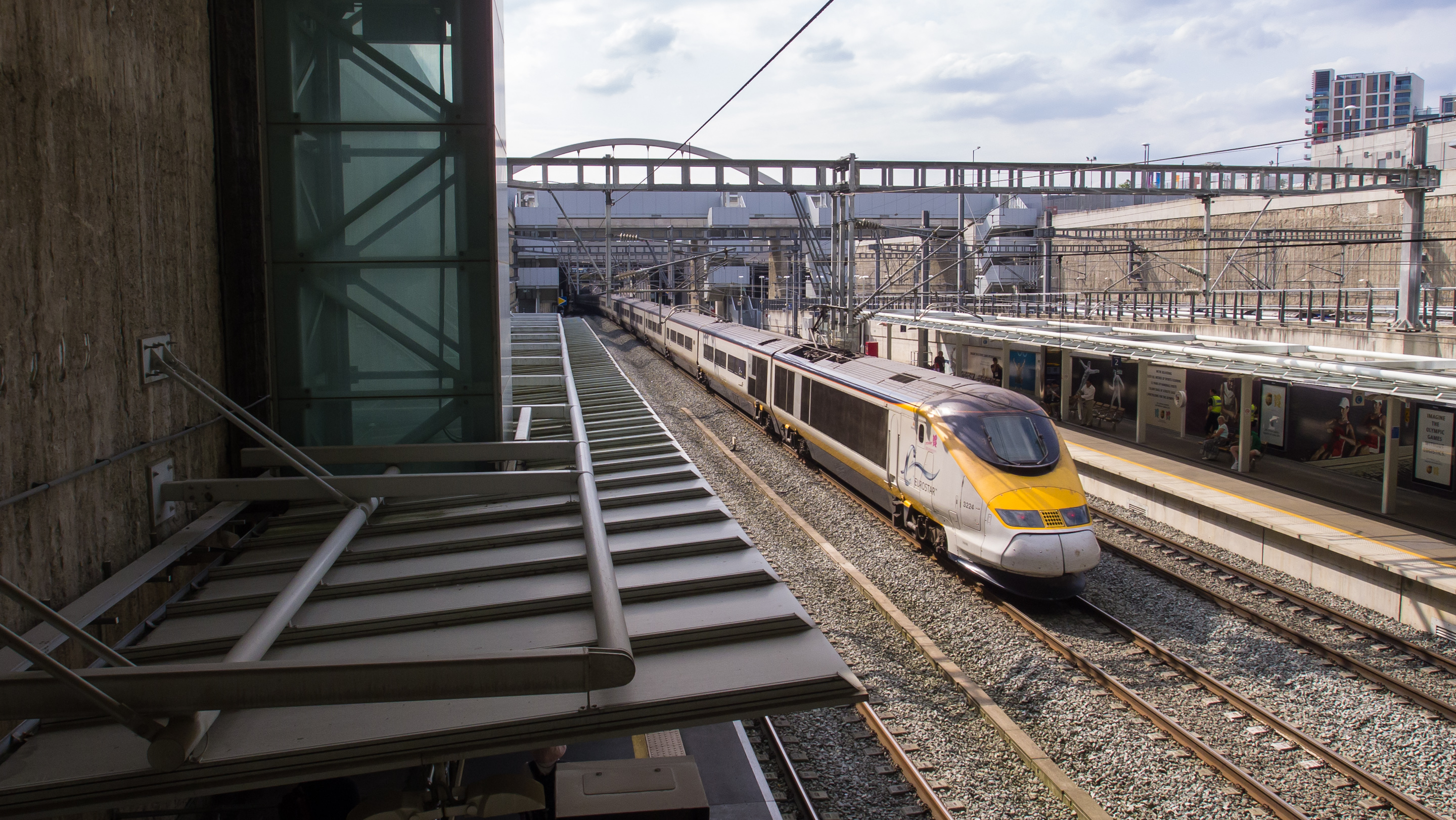 Stratford International station